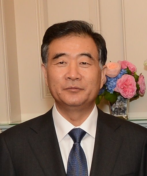 Vice President Joesph Biden, Deputy Secretary of State William Burns, U.S. Secretary of the Treasury Jacob Lew, Chinese State Councilor Yang, and Chinese Vice Premier Wang pose for a photo before participating in a joint dinner during the U.S.-China Strategic and Economic Dialogue at the U.S. Department of State in Washington, D.C., on July 10, 2013. [State Department photo/ Public Domain]